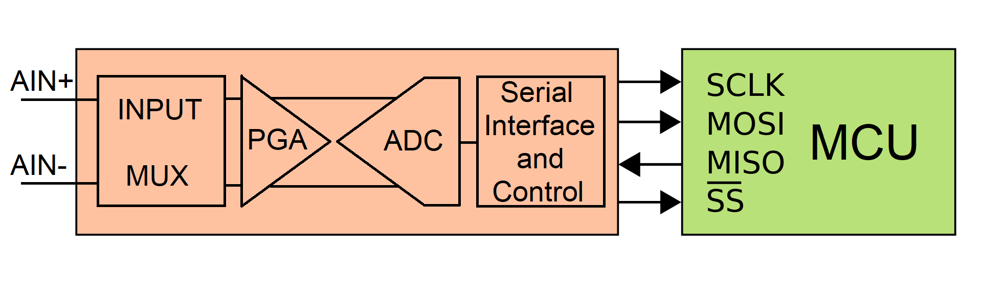 ADC andMCU Wiring diagram